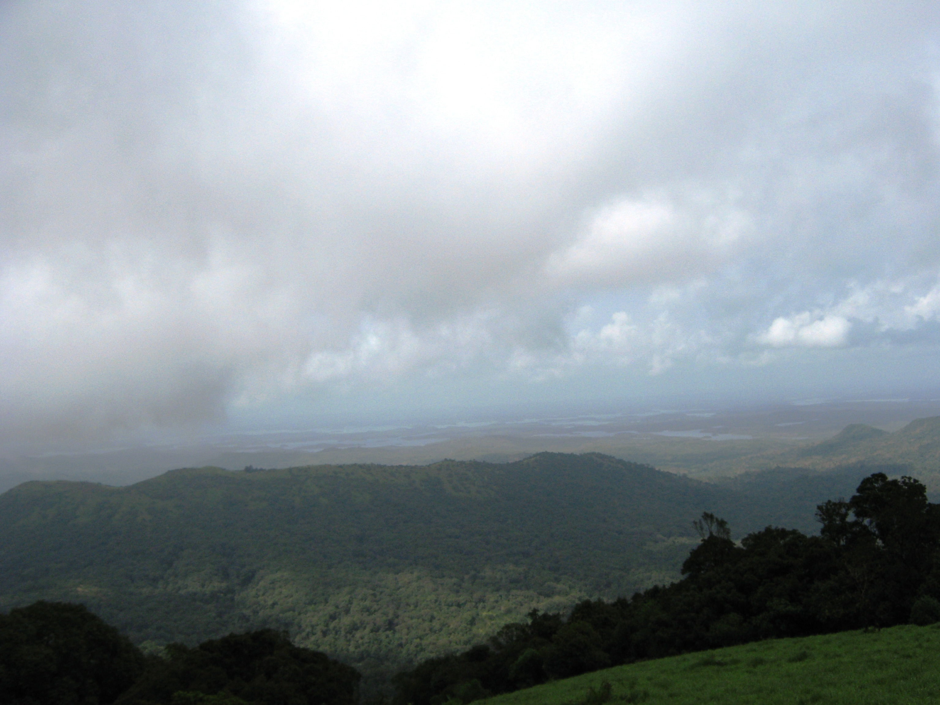 Western Ghats and Arabian Sea visible from Kodachadri